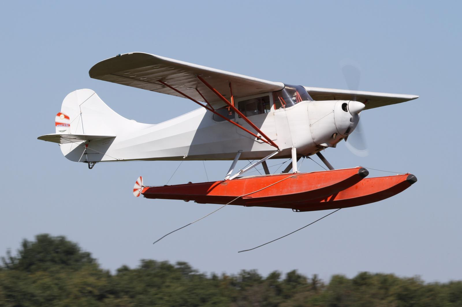 1946 Aeronca 11AC C/N 11AC1165